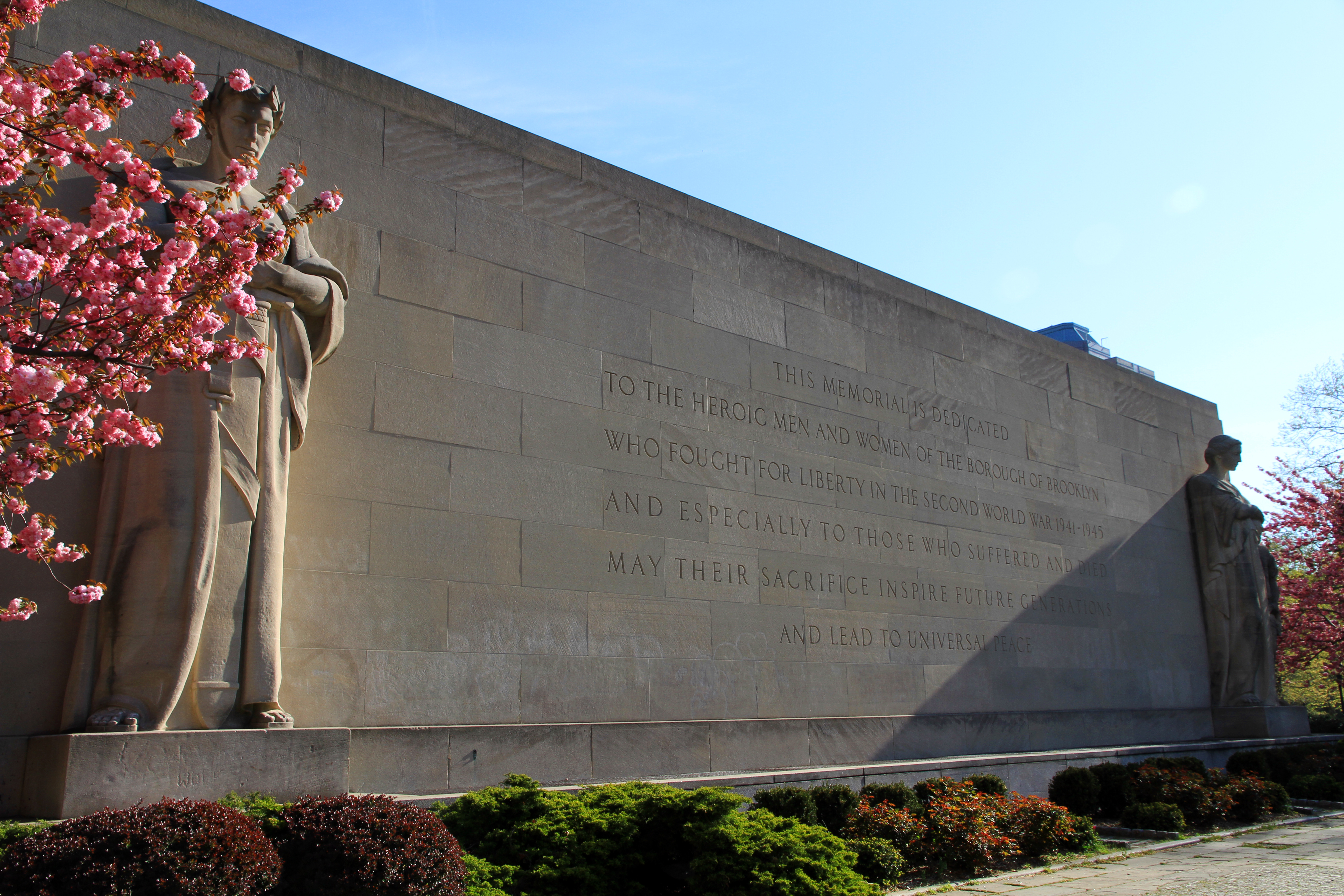 Brooklyn War Memorial